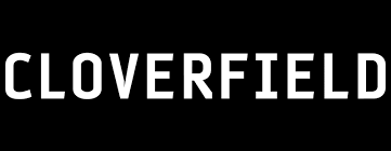 logo